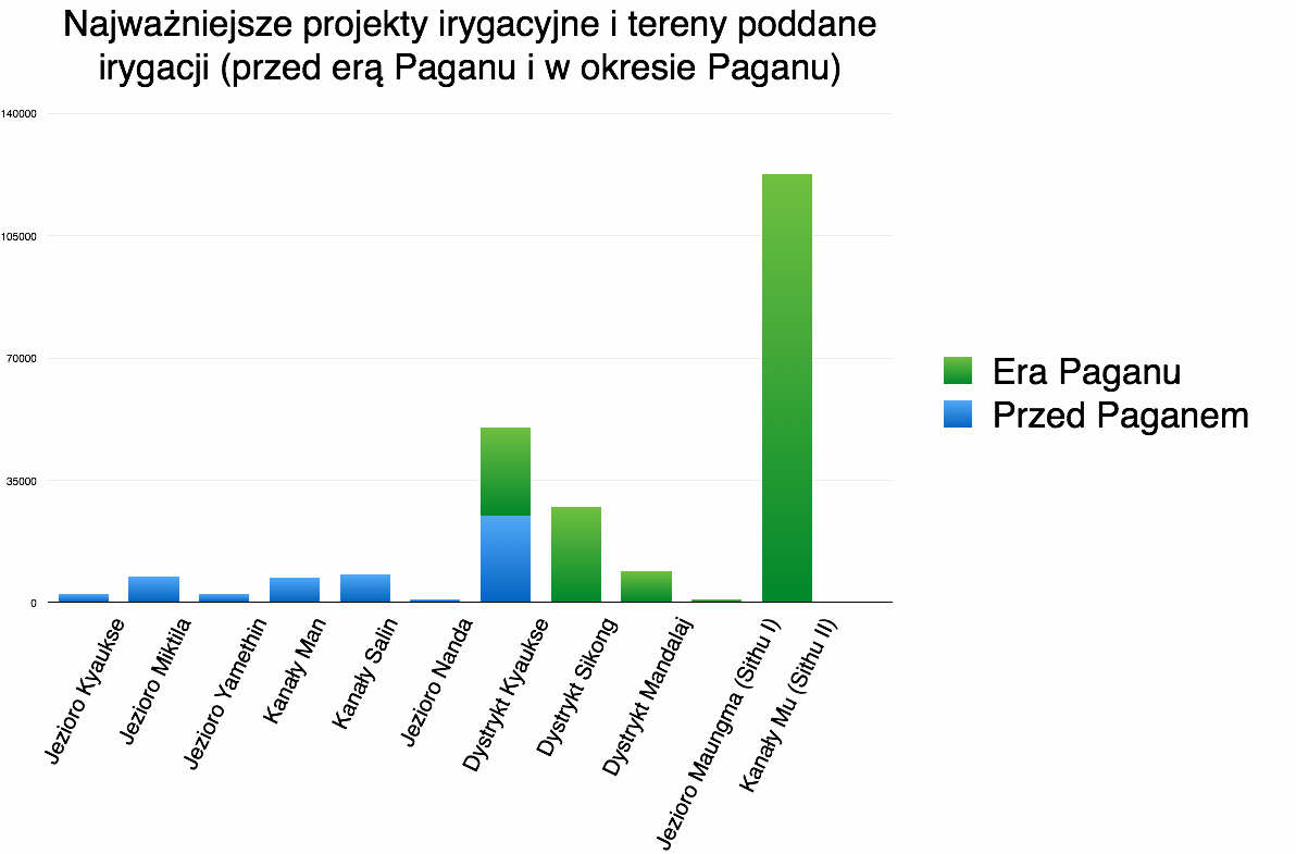 Major irrigation works and their irrigated land areas - Polish version based on Hybernator's work. Data source: Pagan: The Origins of Modern Burma, 1985, by Michael Aung-Thwin, p. 191, Table 2: Major Irrigation Works; University of Hawaii Press.